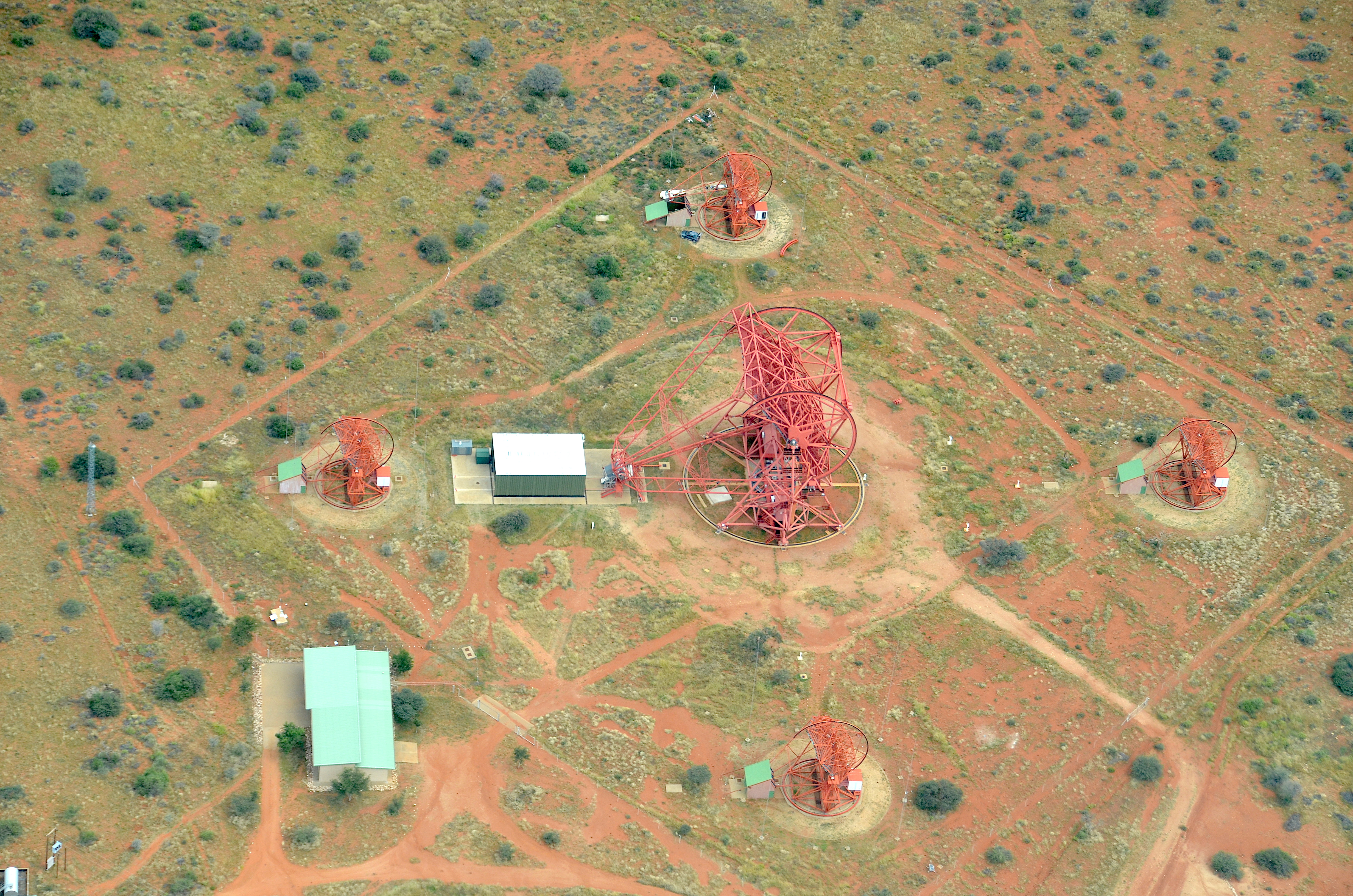 H.E.S.S. from Bird´s eye view (2017)